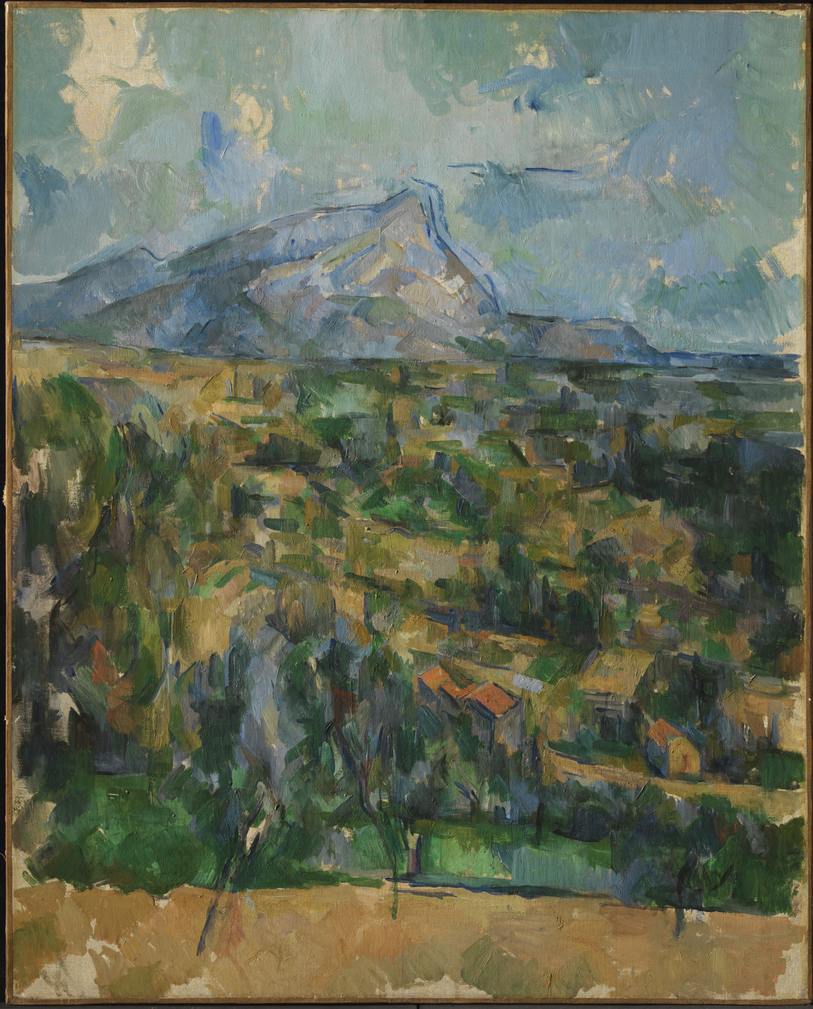 Cézanne first painted Mont Sainte-Victoire in 1870, beginning his decades-long fascination with the subject that ultimately yielded more than thirty paintings and watercolors of it. The peak played an important role in the ancient history of his native Aix-en-Provence. Its name refers to a Roman victory in 102 b.c. over Teutonic armies in the area. Cézanne created his later views of Sainte-Victoire, including this one, in his hillside studio at Les Lauves, where he was afforded a magnifi cent view of the soaring mountain from across the valley, with its farmland and distinctive olive and almond trees. -gallery label from the Princeton University Art Museum